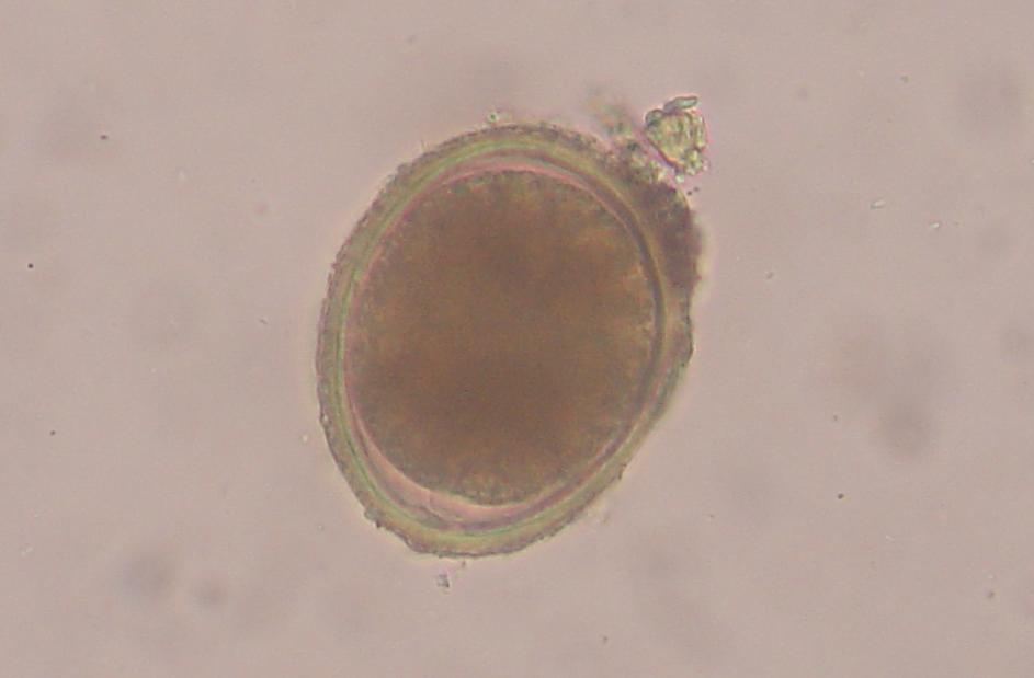 A feline roundworm (Toxocara cati) egg. Photo taken through a microscope at 400x.